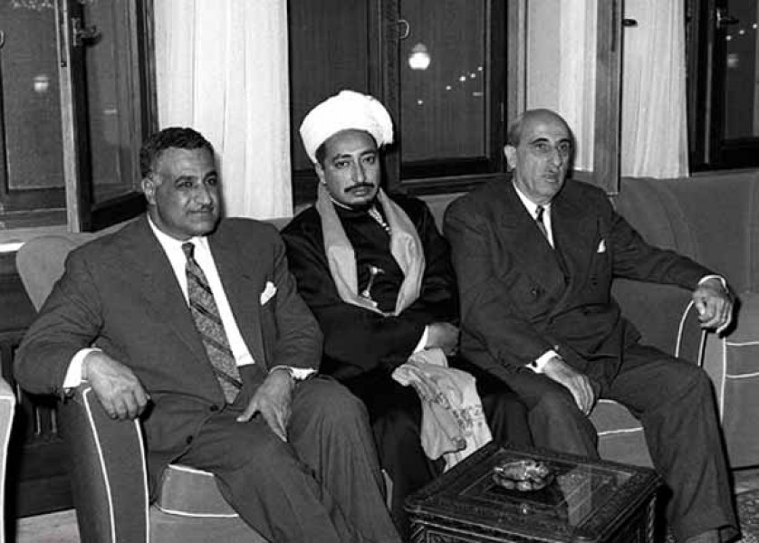 Presidents Gamal Abdul Nasser (Egypt) and Shukri al-Quwatli (Syria) recieving Yemeni Crown Prince Mohammad Badr in Damascus in February 1958, congratulating them on formation of the United Arab Republic (UAR) / From left to right: President Gamal Abdul Nasser, Crown Prince Badr, President Shukri al-Quwatli